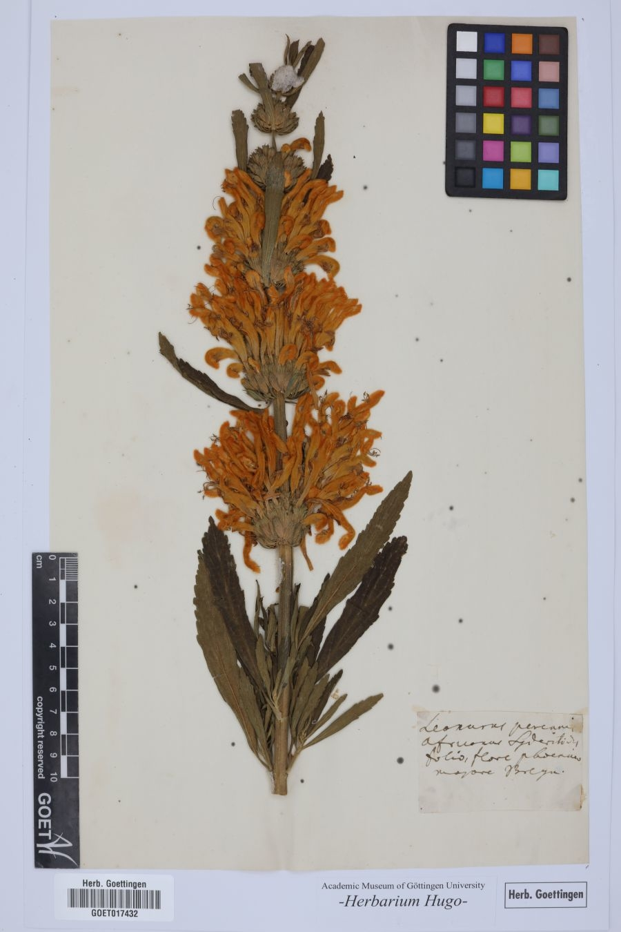 A specimen of Leonotis leonurus (Lamiaceae) from the von Hugo Herbarium